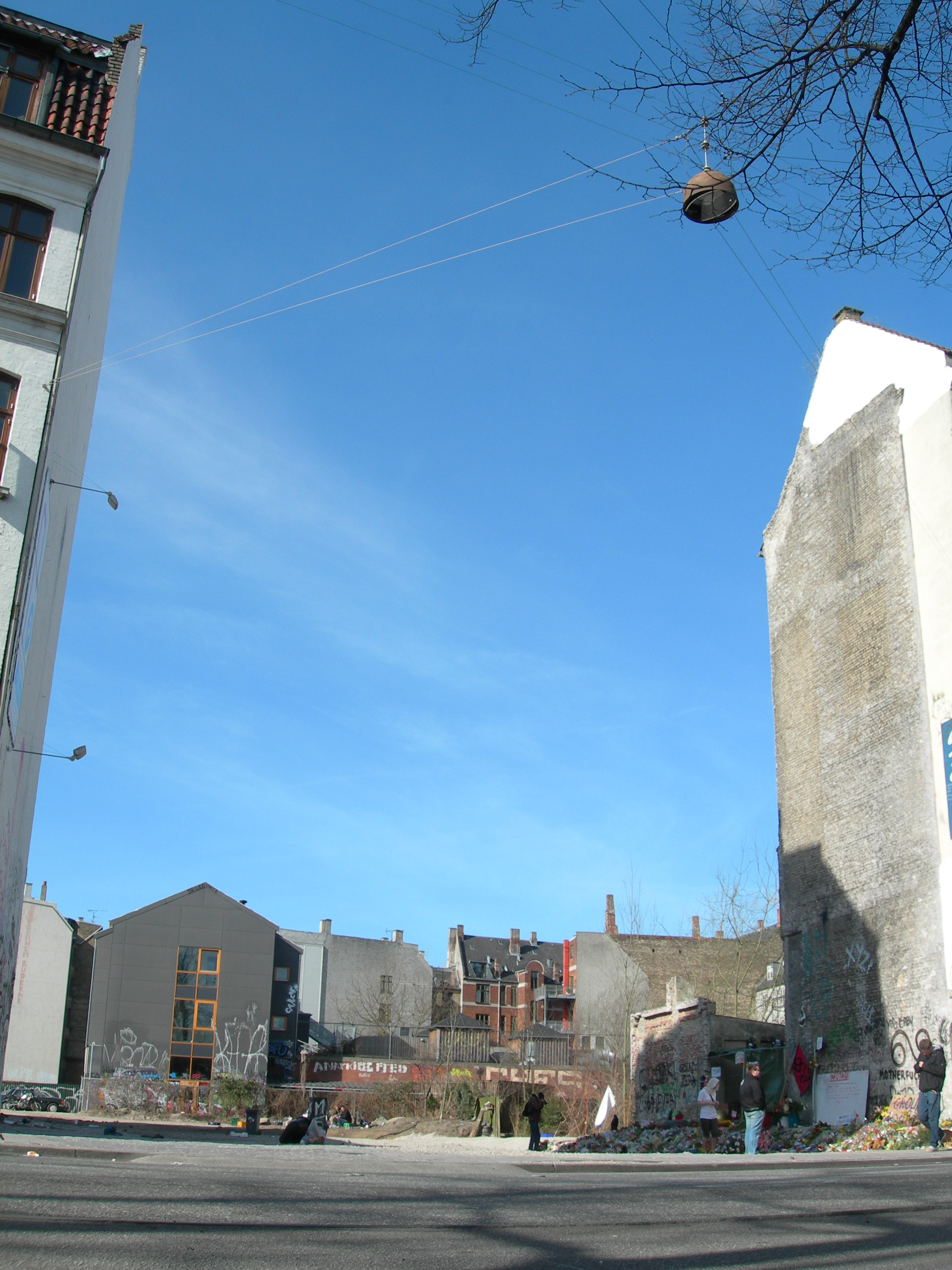 The empty lot where Ungdomshuset once stood, on Jagtvej in Copenhagen, taken in mars 14, 2007. The house was widely known as a place for young people, especially from the left-wing. Furthermore some autonomists were using the house as a meeting place. In March 2007, the house was torn down by its owner "faderhuset" after it was evicted by the police. For several days, users of the house demonstrated in the streets of Copenhagen, burning cars and throwing bricks at the police.